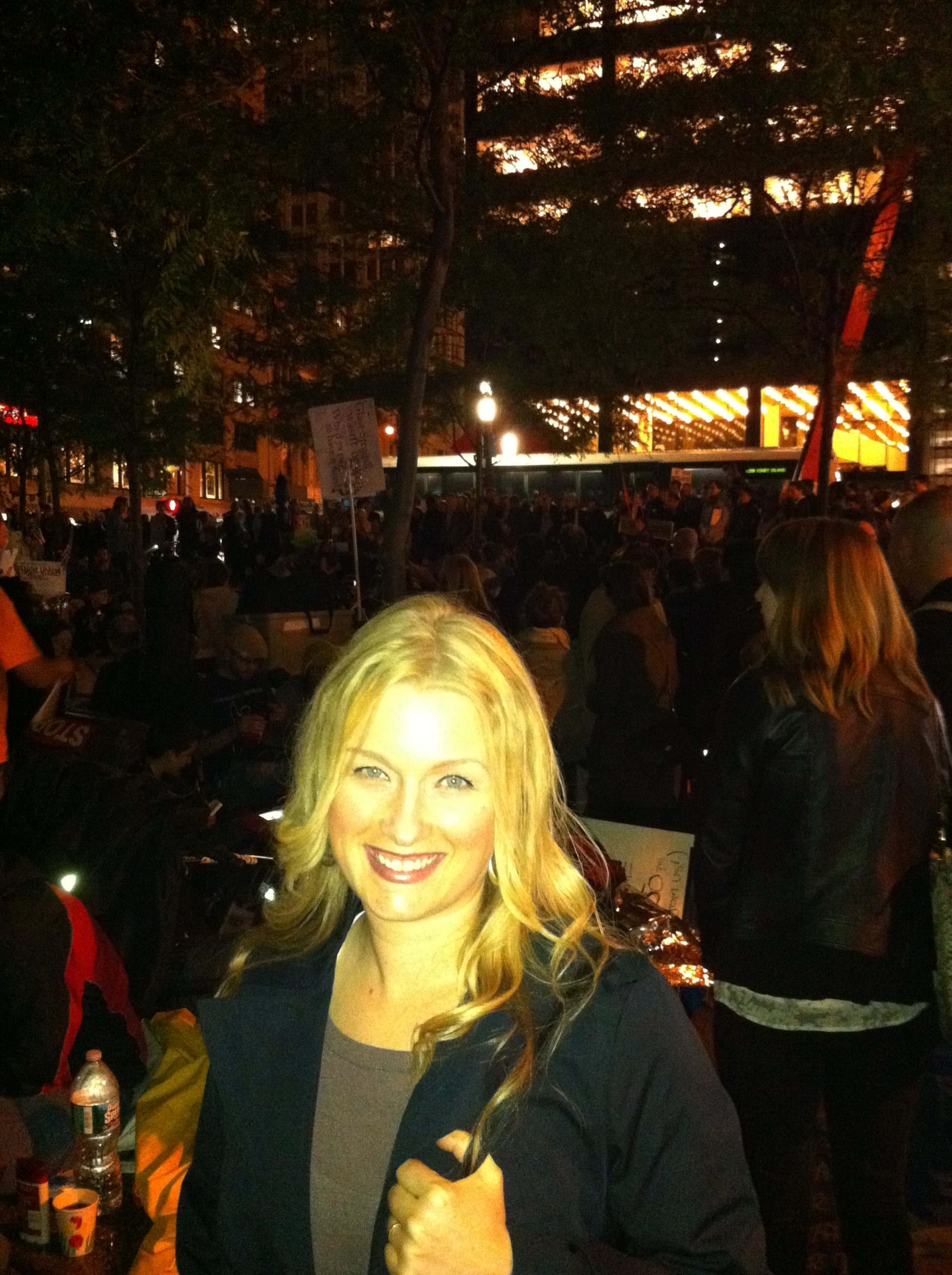 Photo of Journalist Tina Dupuy at Zucotti Park during and Occupy rally. I took the photo with Ms. Dupuy's permission.